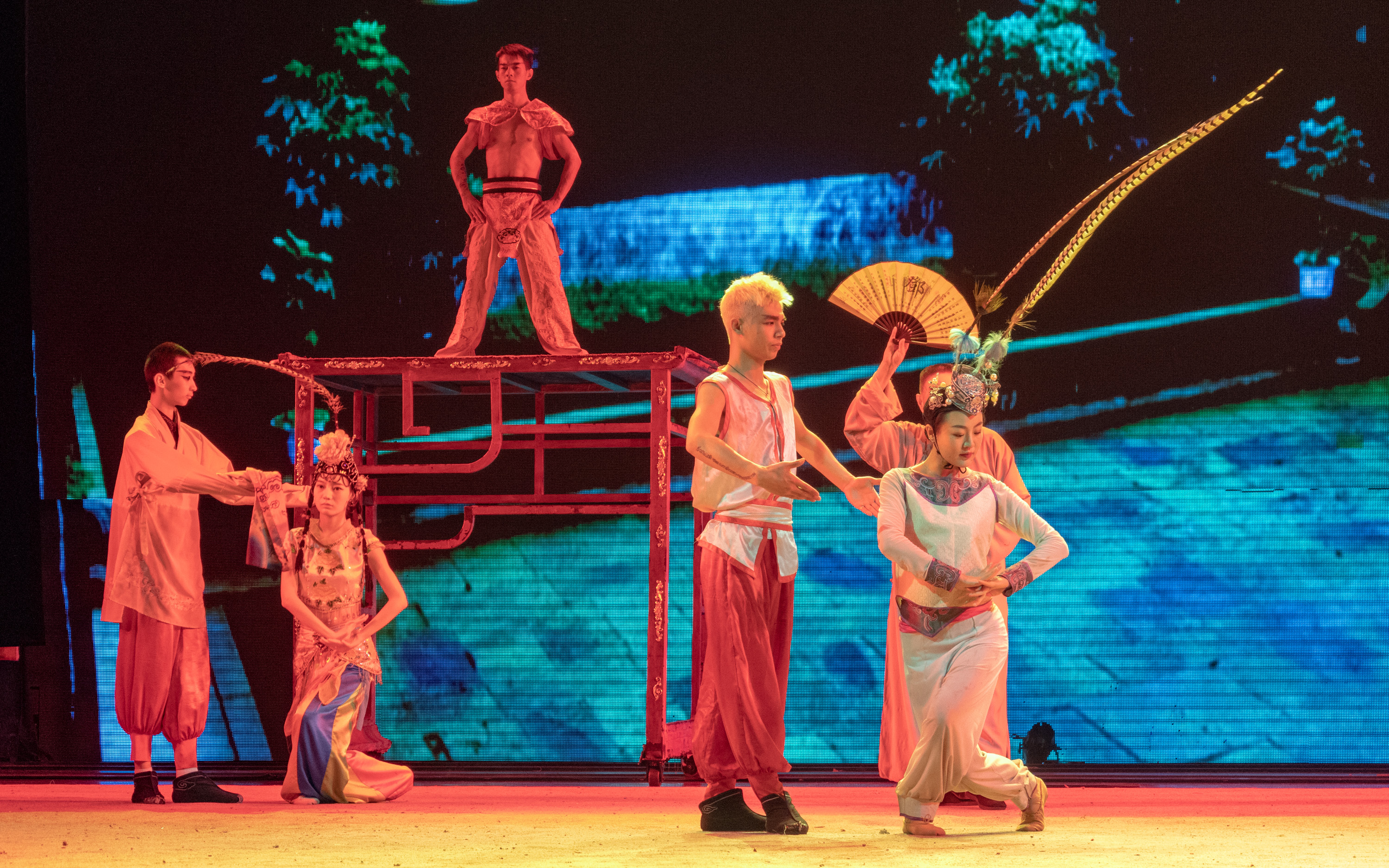 35699-Chengdu